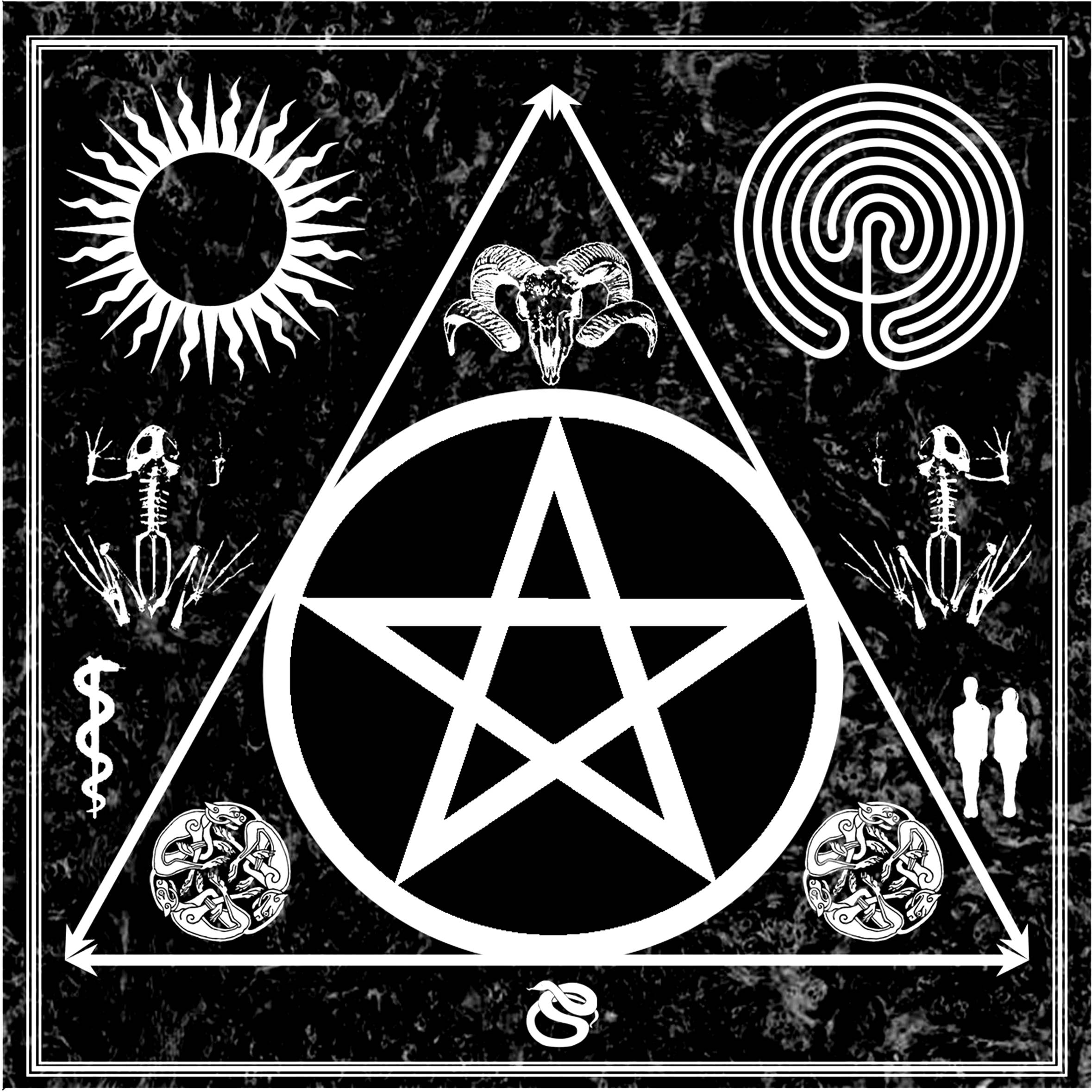 Triangle of Art : Witchcraft tools From Mal Corvus Witchcraft & Folklore artefact private collection owned by Malcolm Lidbury (aka Pink Pasty)